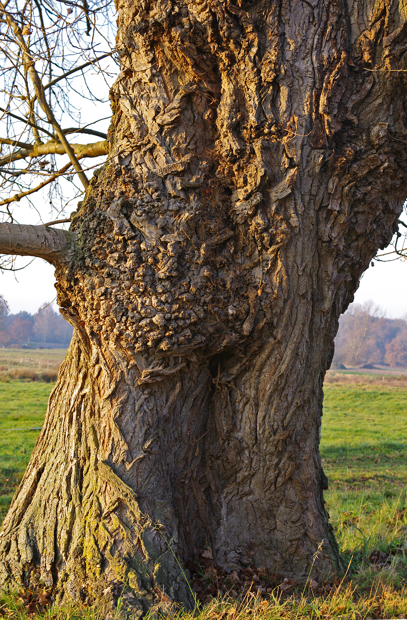 Bizarre bark of an old genuine Black Poplar, Populus nigra.